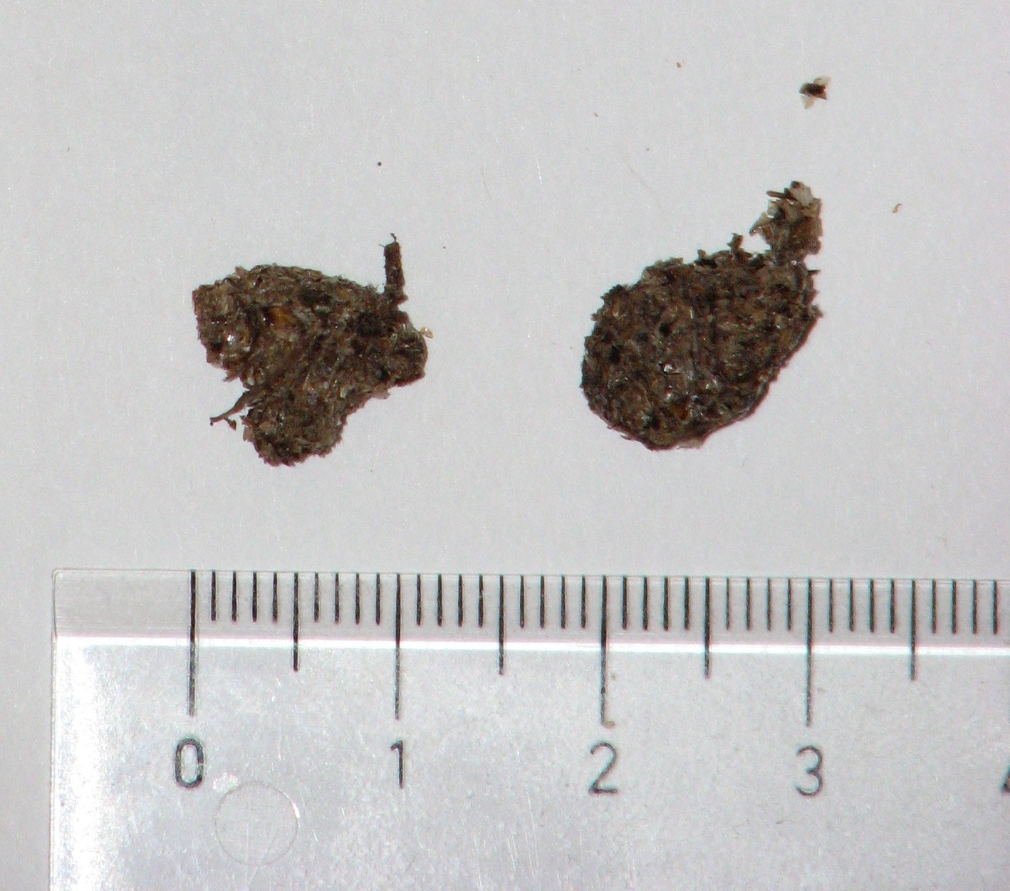 These two balls (each consisting of app. 4 crickets) are a couple of leftovers after two feedings of an adult tarantula. Tarantulas who only consume food turned into liquid by their digestive juices leave these balls of crushed hard pieces of their preys' body or hard parts thereof after the feeding. In a terrarium, they often put them into the same corner. The ruler shows centimetres.